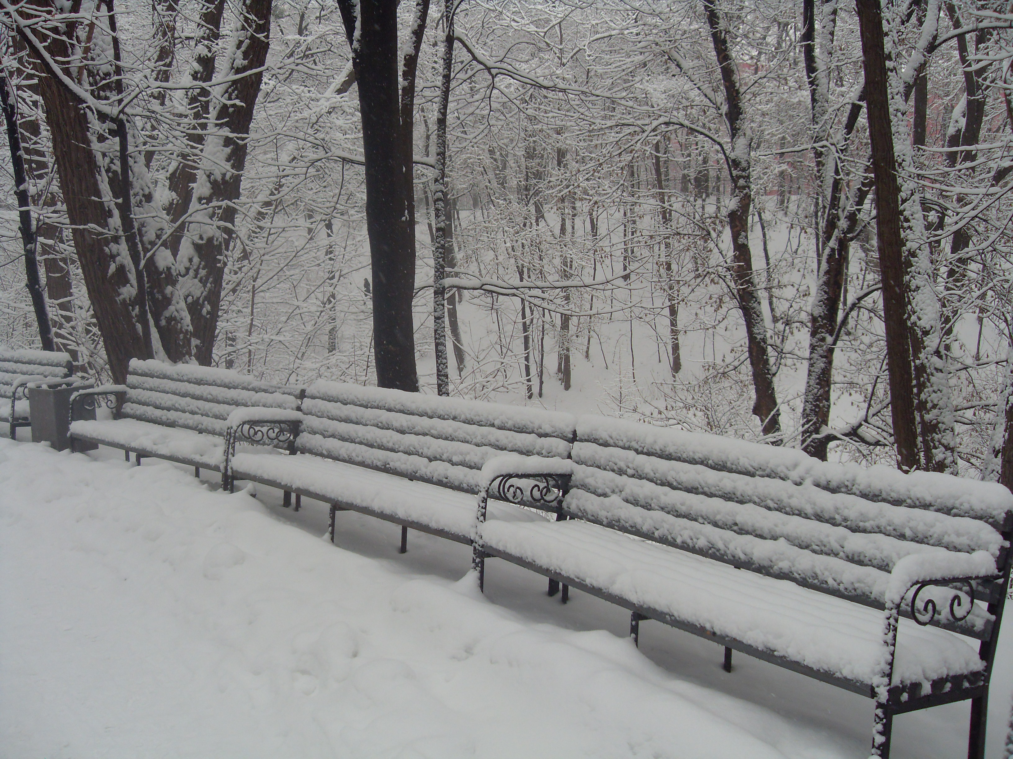 Fomin Botanical Garden in the winter.